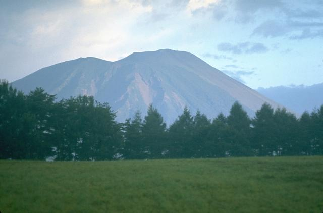 Iwate volcano viewed from the southeast.